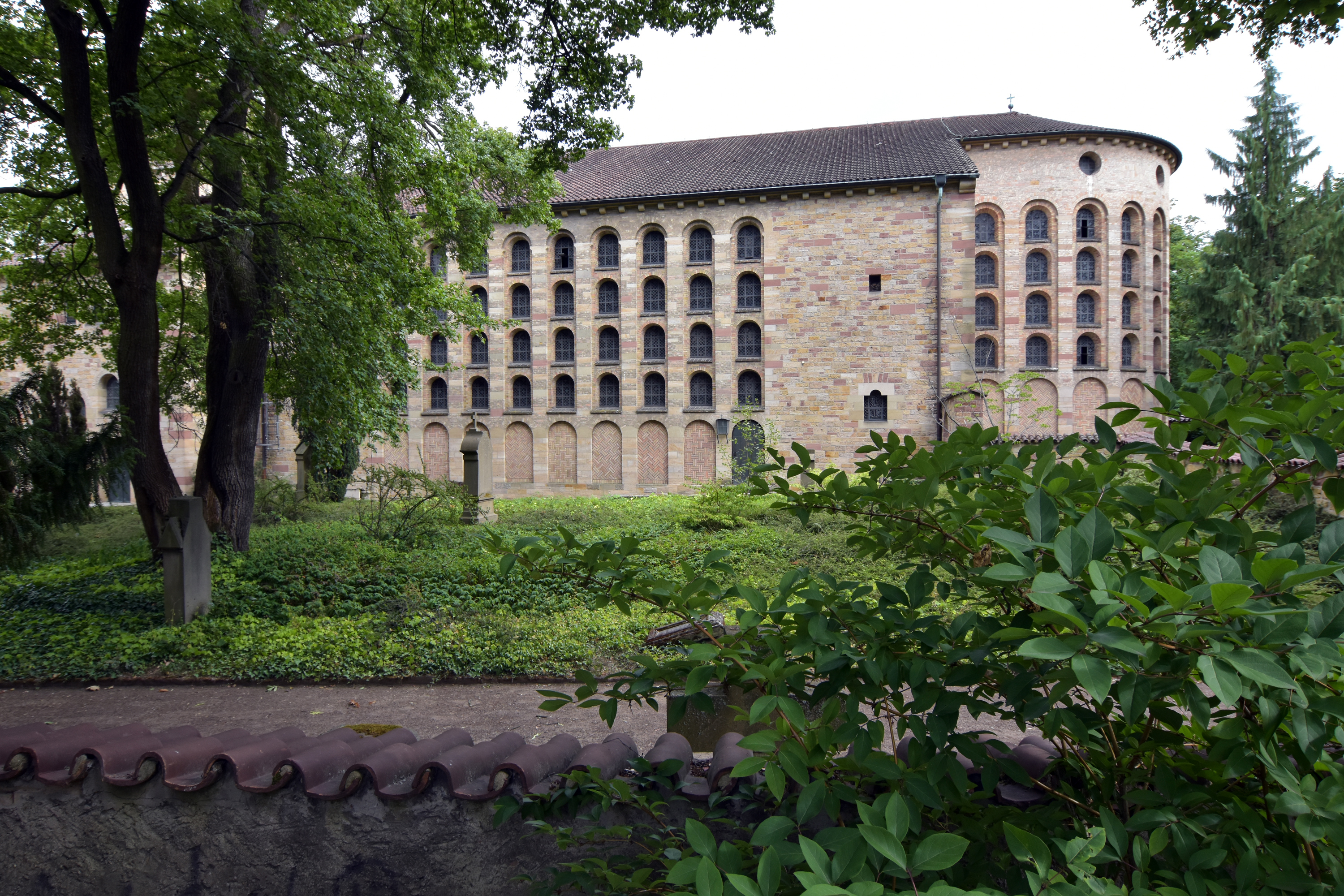 Adenauer Park Speyer